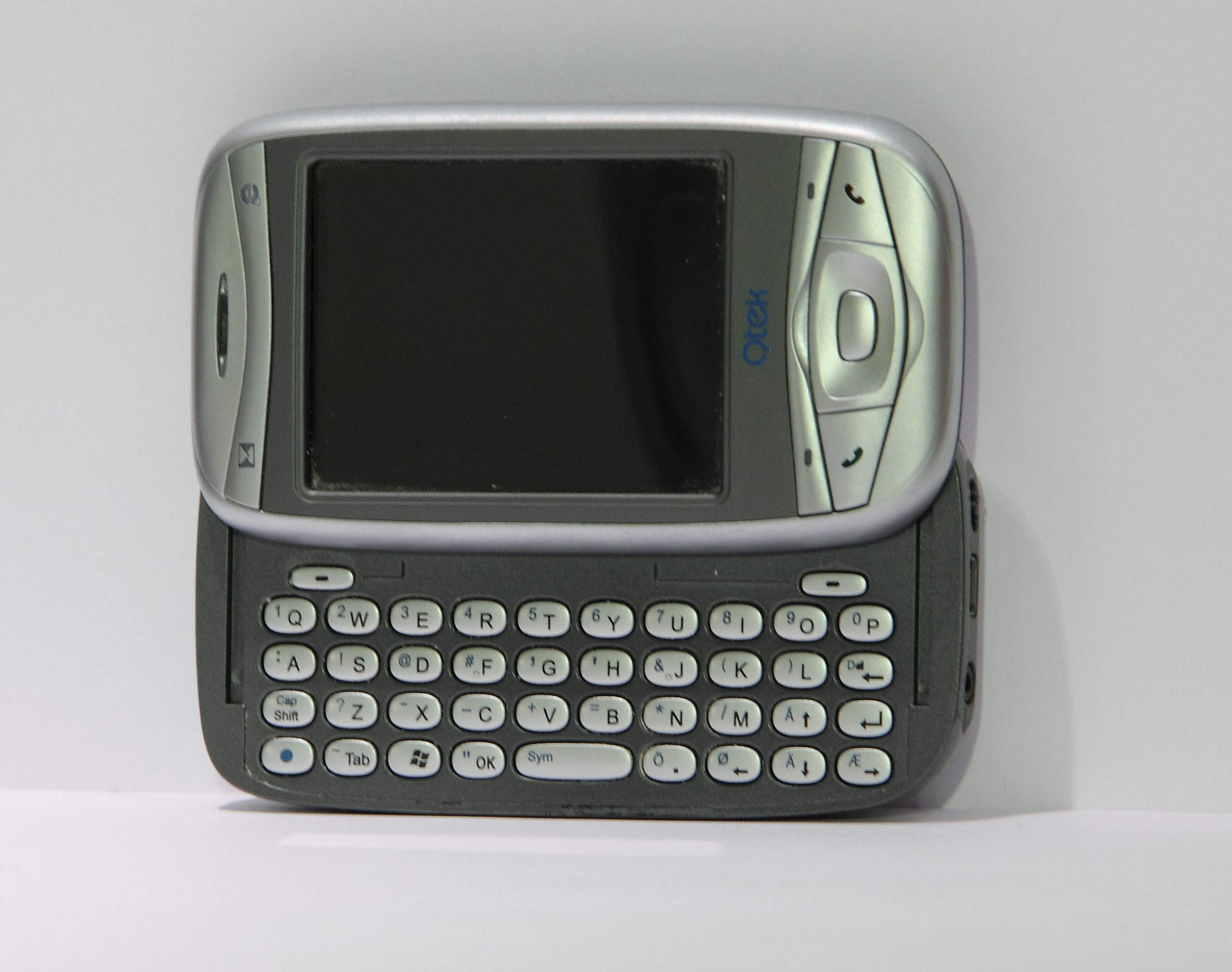 Qtek 9100/HTC Wizard with keyboard vissible